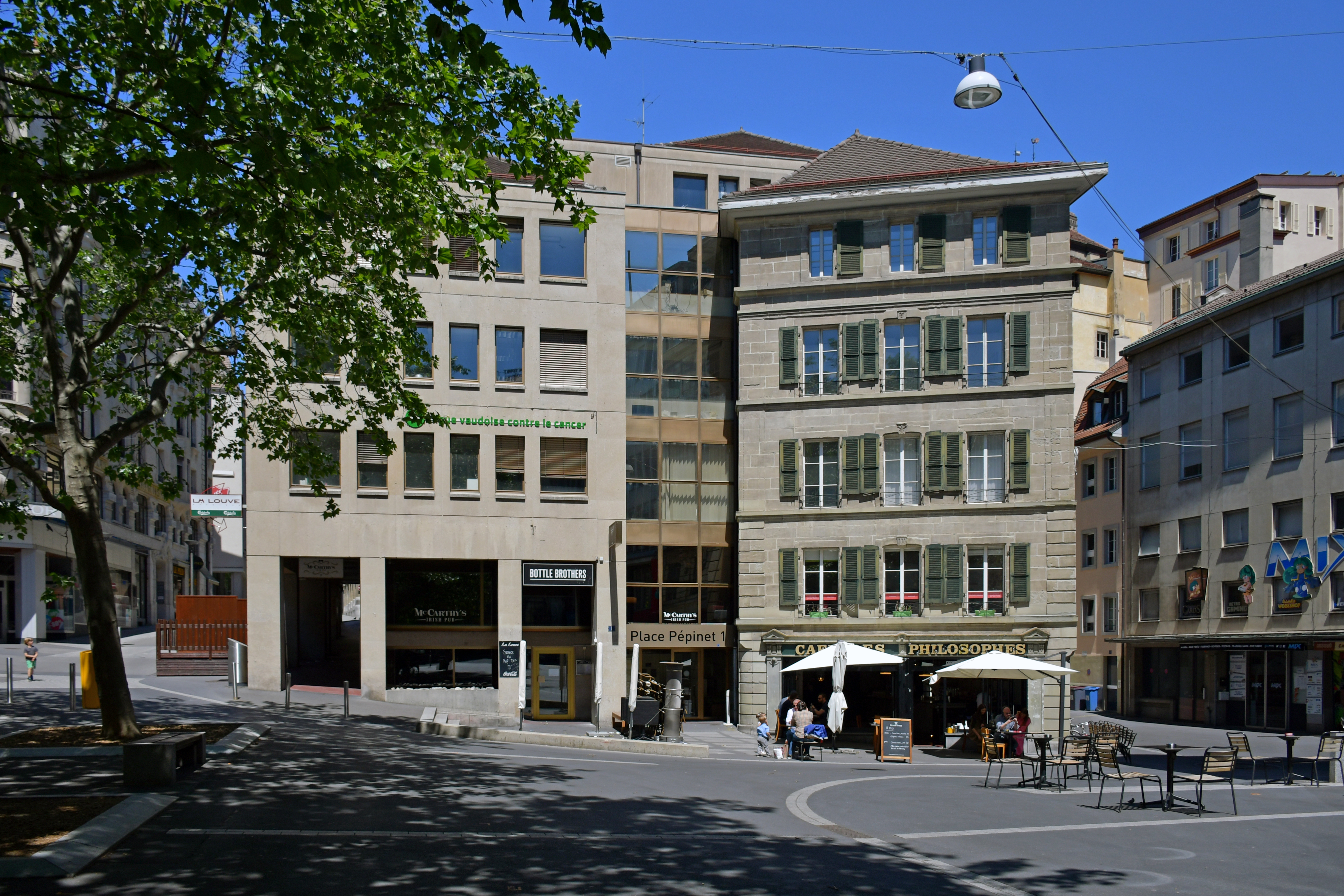 The Pépinet square in Lausanne (Switzerland). The leaning façade of the old Café des Philosophe was saved during the building's construction in 1972. The tilt is not due to lens distortion.